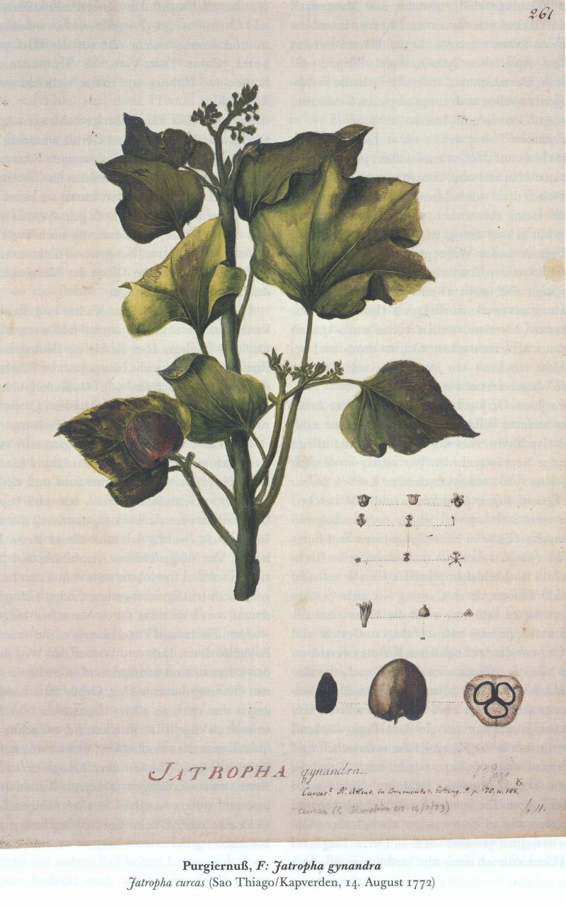 A drawing of Jatropha gynanda made by G. Forster during 2nd Cook's voyage around world.